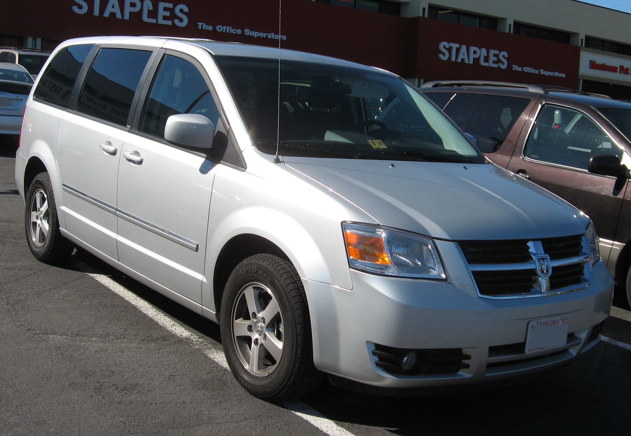 2008 Dodge Grand Caravan photographed in Rockville, Maryland, USA.